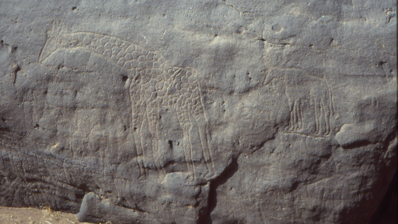 More petroglyphs near the Dabous Giraffes, Niger, 1991